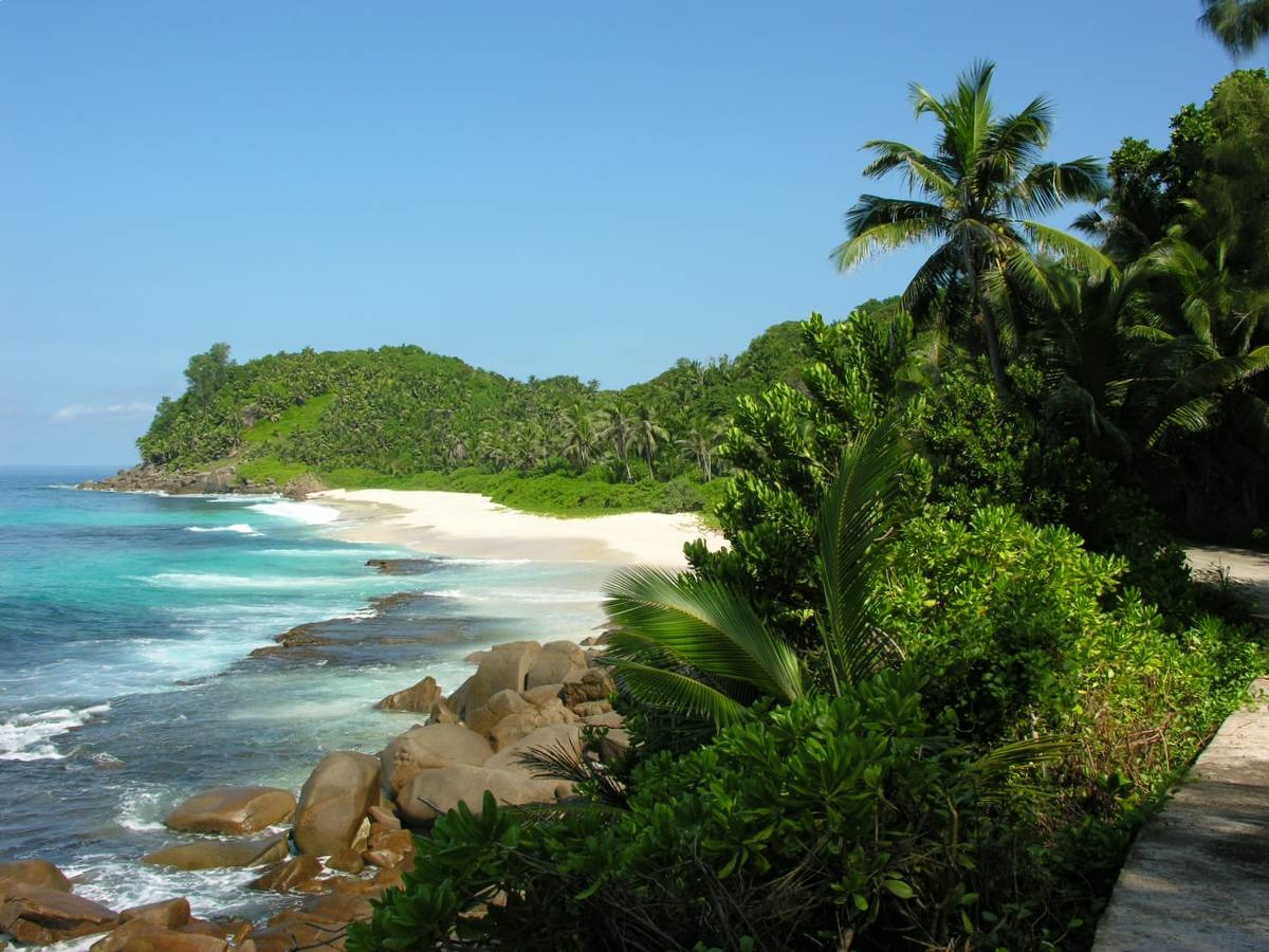 Seychelles, Petit Police, Mahé Island